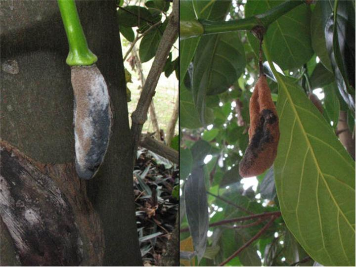 Rhizopus stolonifer is a species of fungi of the family Mucoraceae